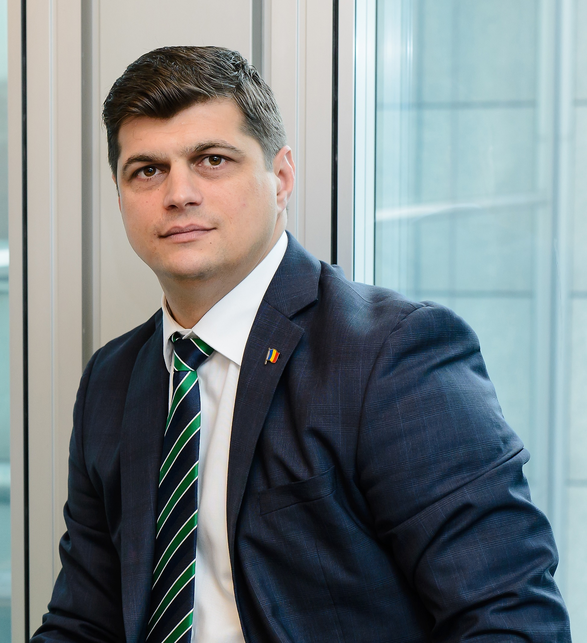 This is a copyrighted free use image of Laurentiu Rebega.